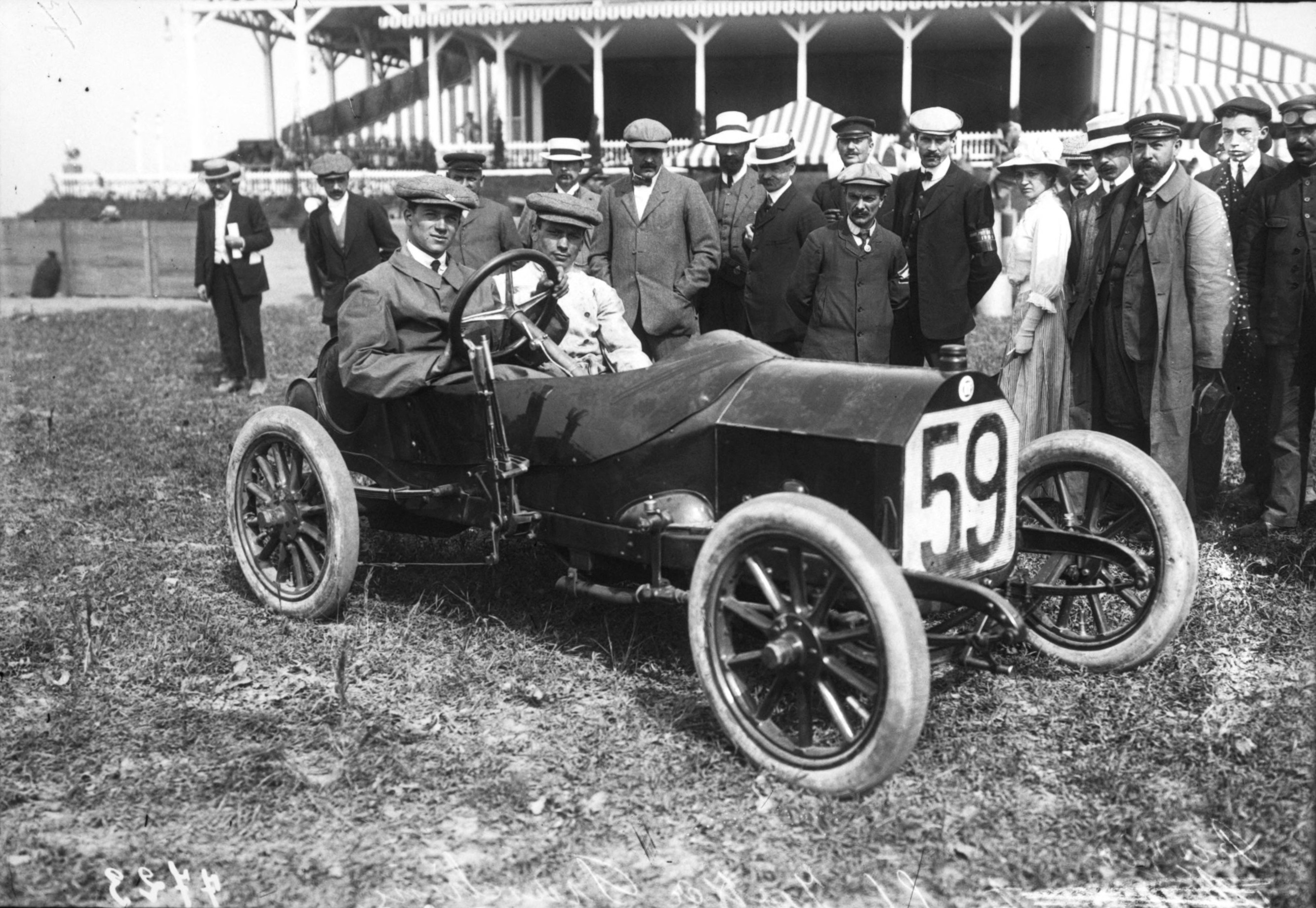 Entry #59 at the 1908 Grand Prix des Voiturettes at Dieppe was Felice Buzio in his Isotta-Fraschini, mechanic (on his side) was Sign. Butti.[1]